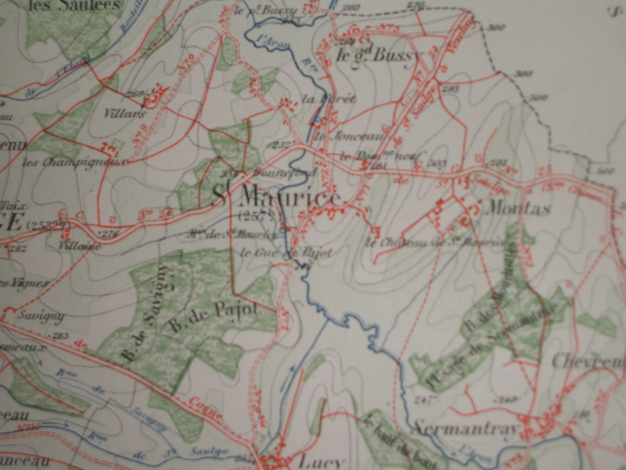 St Maurice card dating 1878